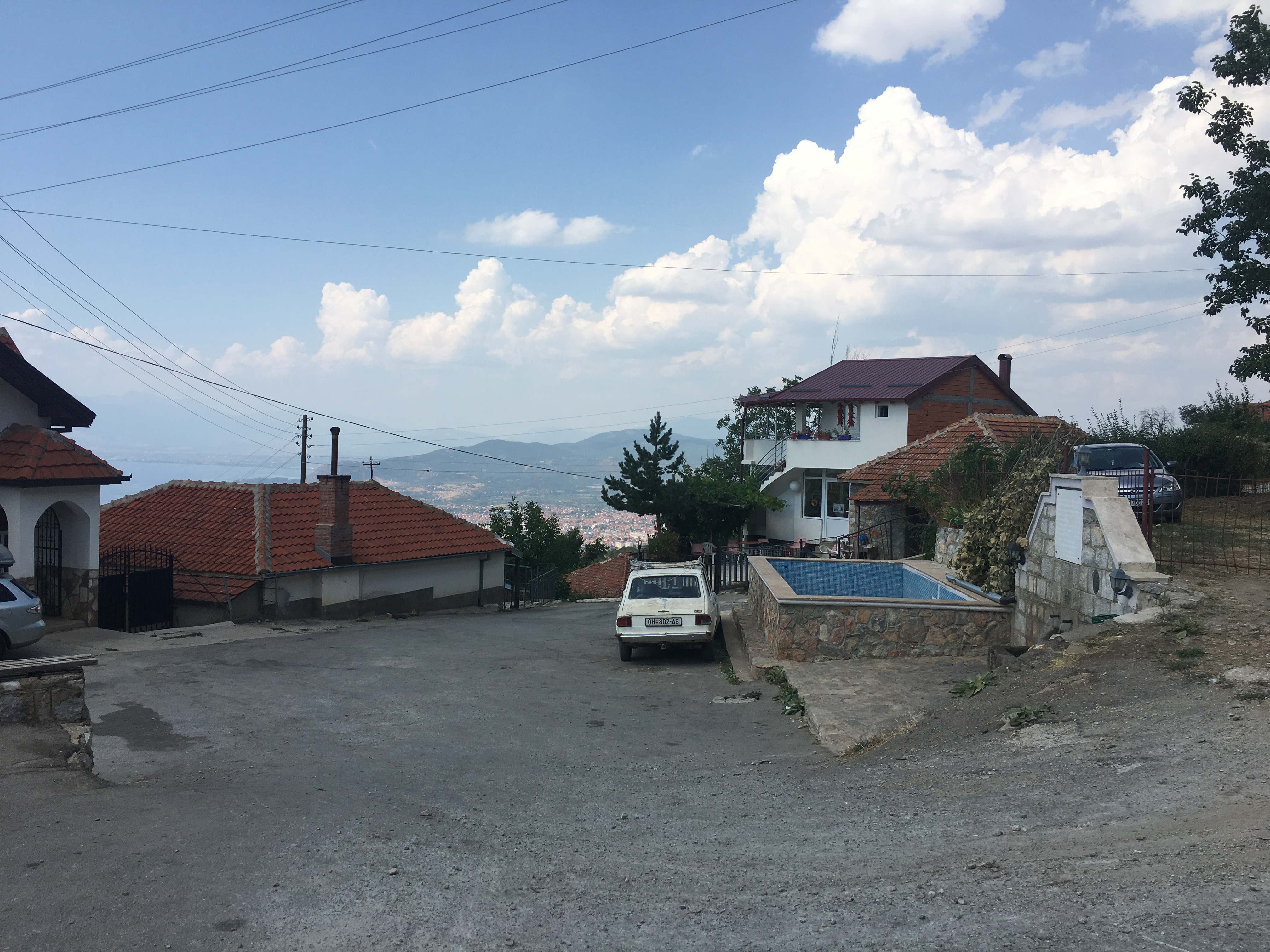 The mid-village of Velestovo